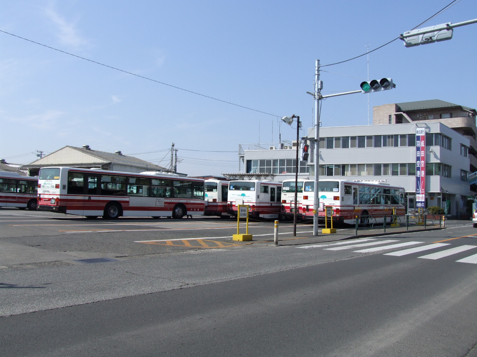 Odakyu Bus Komae Depot in Komae City, Tokyo, Japan